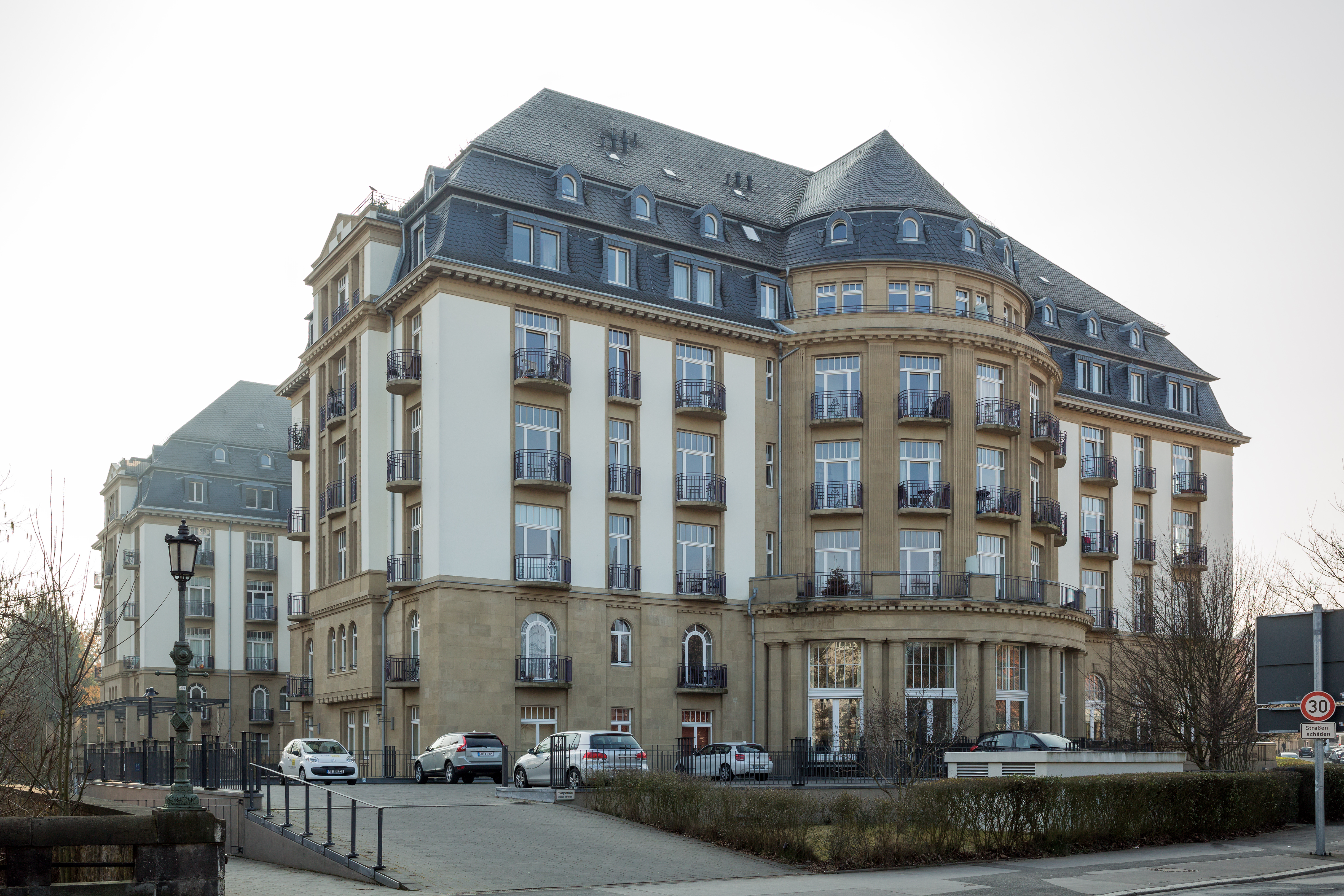 Bad Nauheim: Former Grand Hotel as seen from the northeast